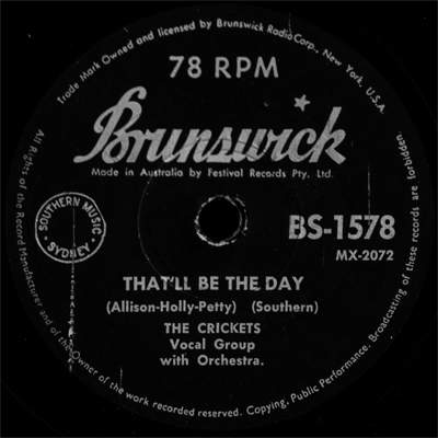 A That'll Be the Day record